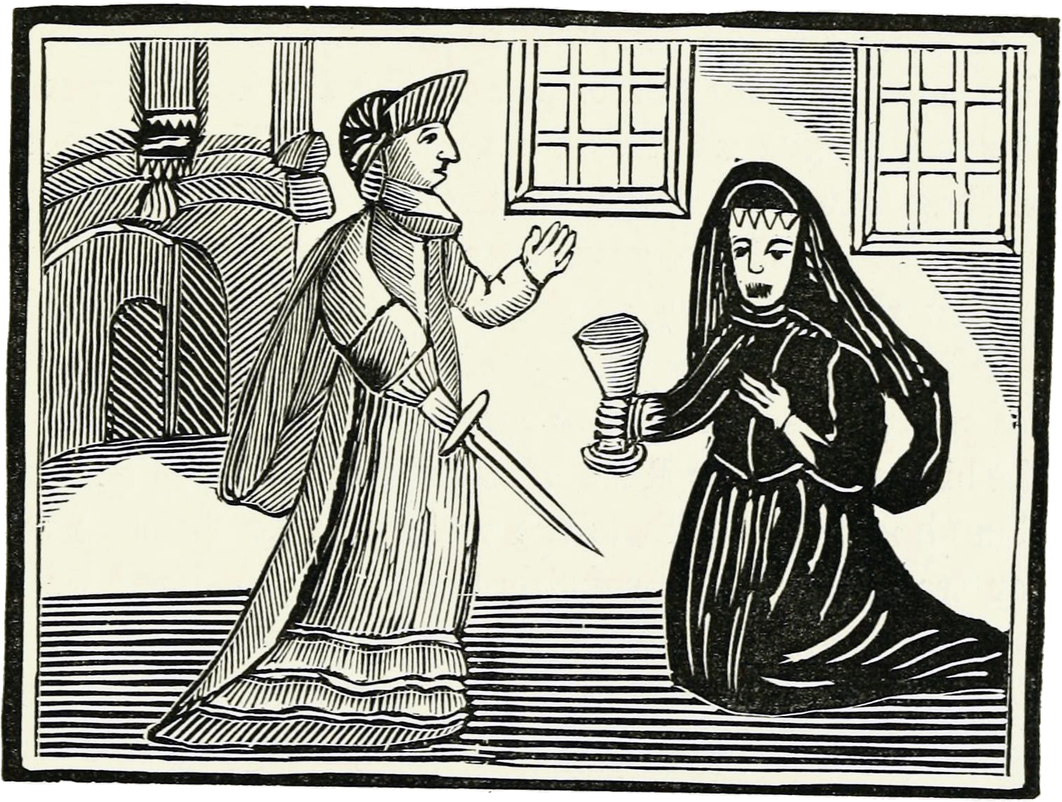 Illustration from an 18th century chapbook reproduced in Chap-books of the eighteenth century by John Ashton (1834).